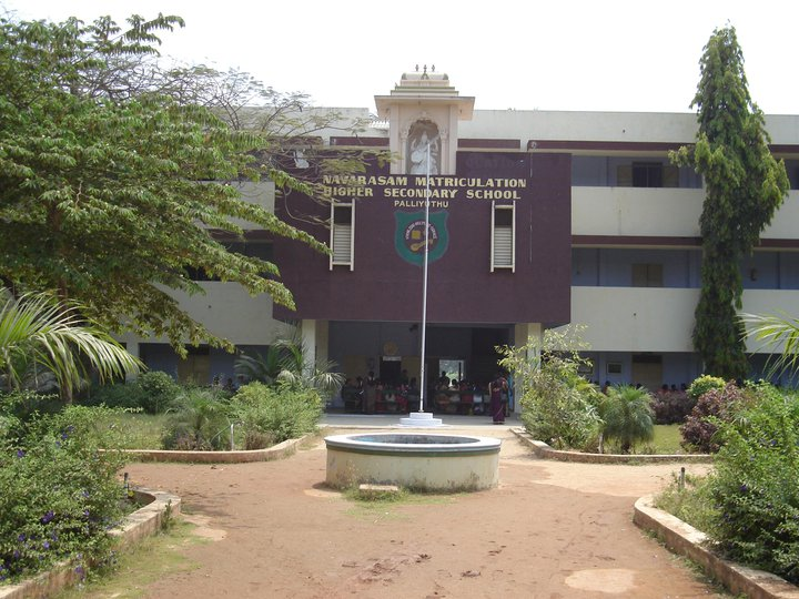 School Photo